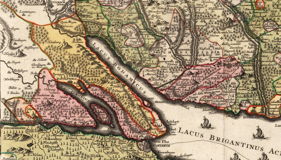 Portion of a mid-18th century Latin-language map centered on Lake Constance (Bodensee) showing the scattered territories of the Prince-Bishopric of Constance (in deep pink only). A few remote enclaves belonging to the bishopric are not shown. From the early 16th century onward, the prince-bishops resided at Meersburg ("Merspurg"). The territories in yellow on the left half of the map belonged to the Teutonic Order.